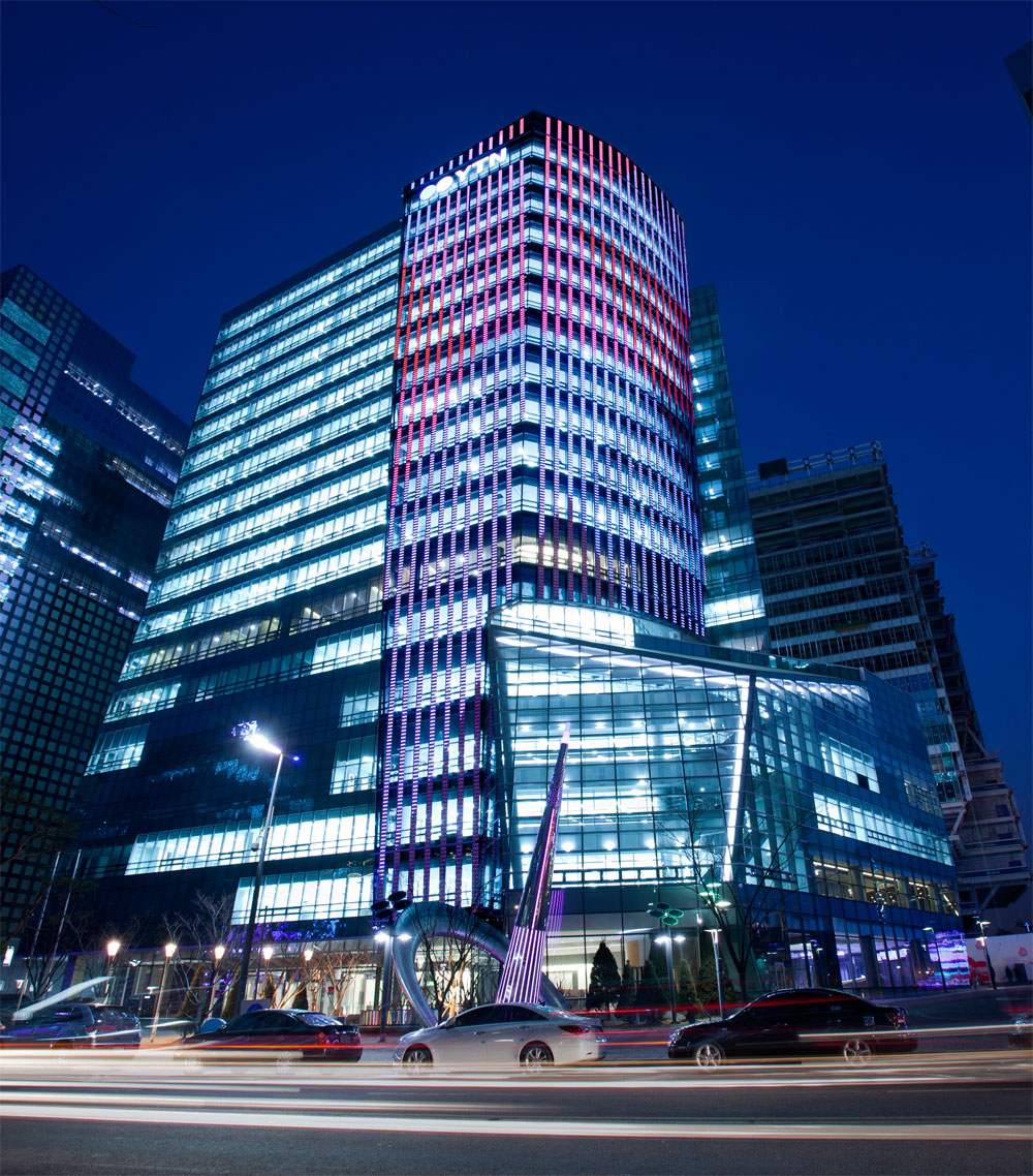 YTN NEWSQUARE